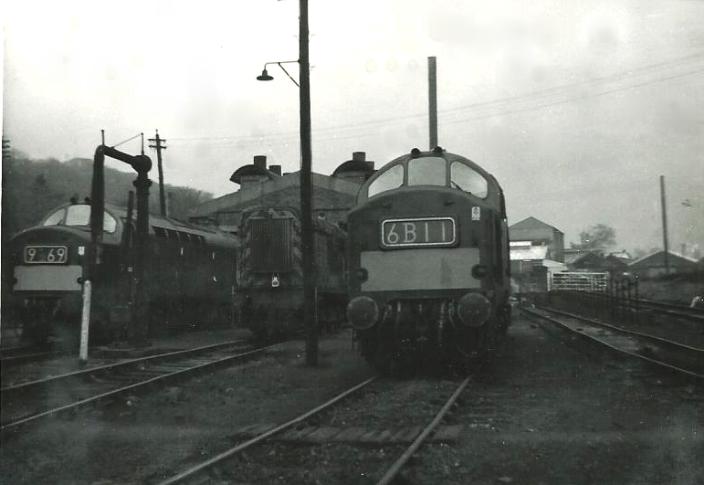 Neath (N&B) Shed, c. early 1964. The shed serviced locos for the Neath & Brecon line (by the side of which which I lived). The locos, from left to right, are English Electric Type 3 (later Class 37) No.D6885, English Electric/BR shunter (later Class 08) 0-6-0 No.D3405 and another EE3 No.D6913. In the shed are several 57XX Class 0-6-0PT's. Scanned photograph taken with an Halina 35X Super camera.